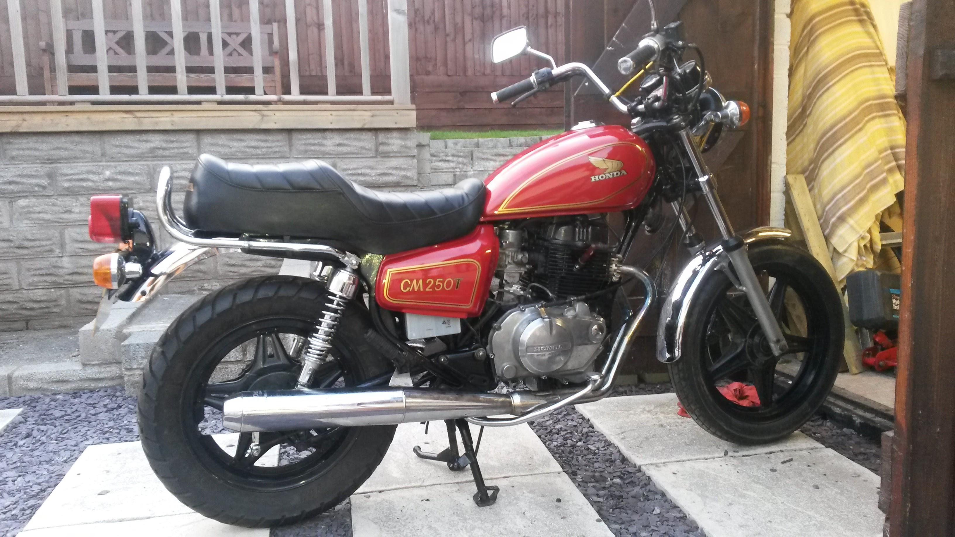 honda